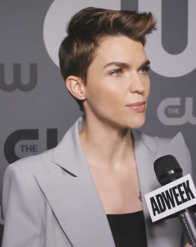 Ruby Rose at The CW Upfront 2019